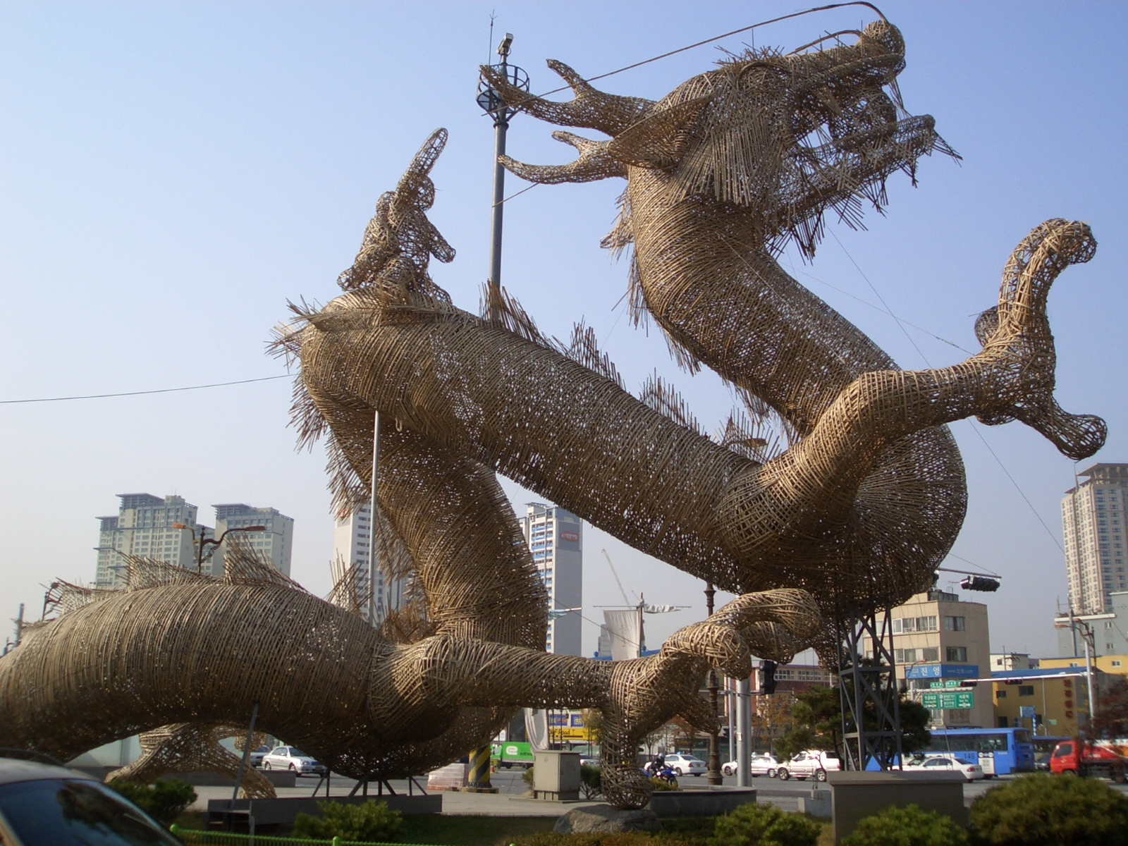 Dragon made out of bamboo on display by Hangang-no near Samgakji subway station, Yongsan-gu, Seoul, Korea. Celebrating Yongsan's 124th anniversary. Note: Yongsan literally means "Dragon Mountain" hence the dragon symbolism.